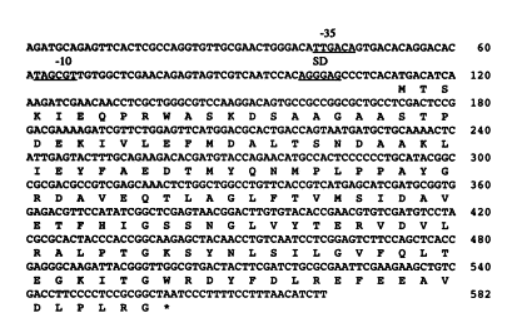 Limoneno-1,2-epóxido hidrolasa secuencia genetica